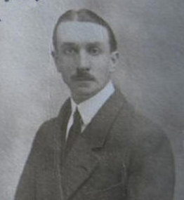 Photo of Captain Jean Decoux, who would later be Admiral in the French Navy. Taken in 1919